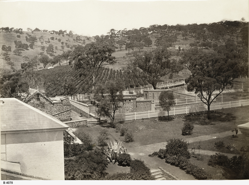 Glen Osmond, Around 1869, author died 1886.